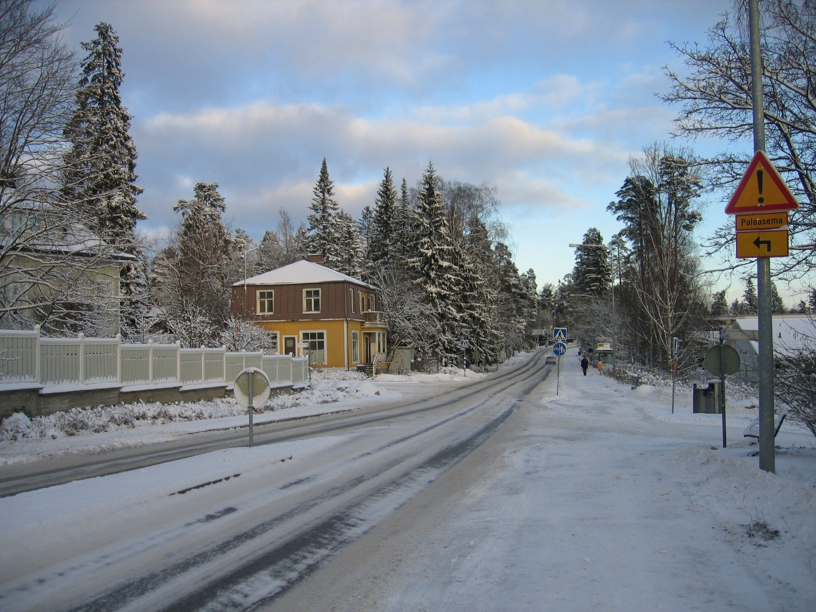 Bredantie street in Kauniainen, Finland.